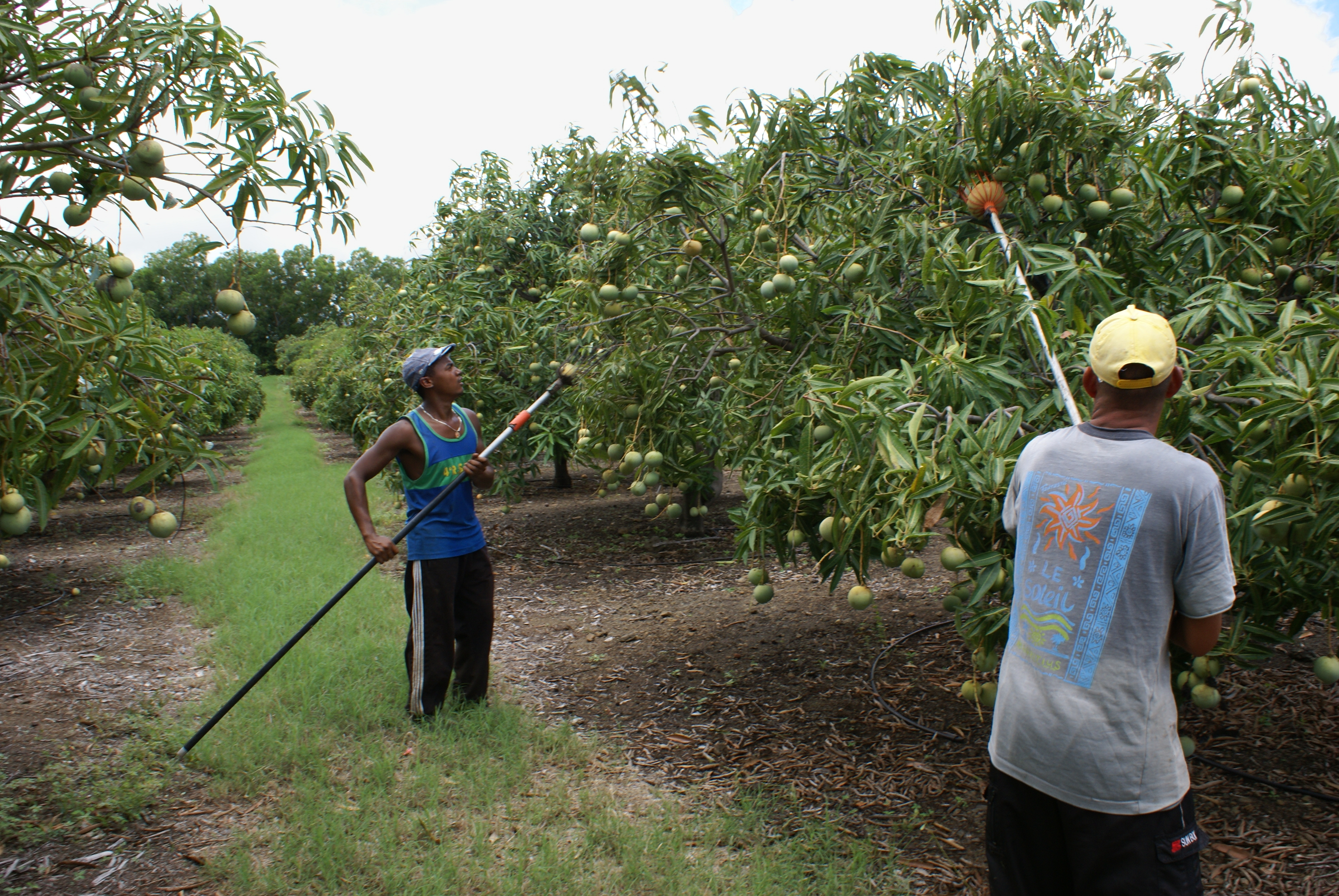 Mangoes (Mangifera indica) picking in an orchard on Réunion island